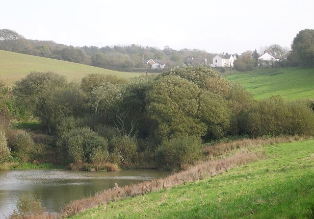 Sheviock. Looking east towards the village of Sheviock from Horsepool Road. The freshwater lake in the foreground has been artificially created.